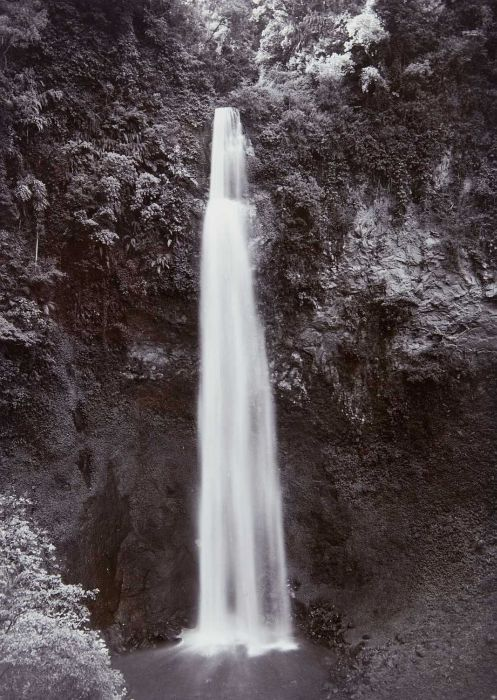 Waterfall near Cisarua and Cimahi